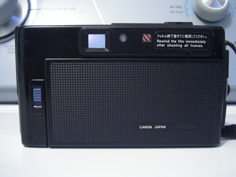 Canon AF35M compact camera